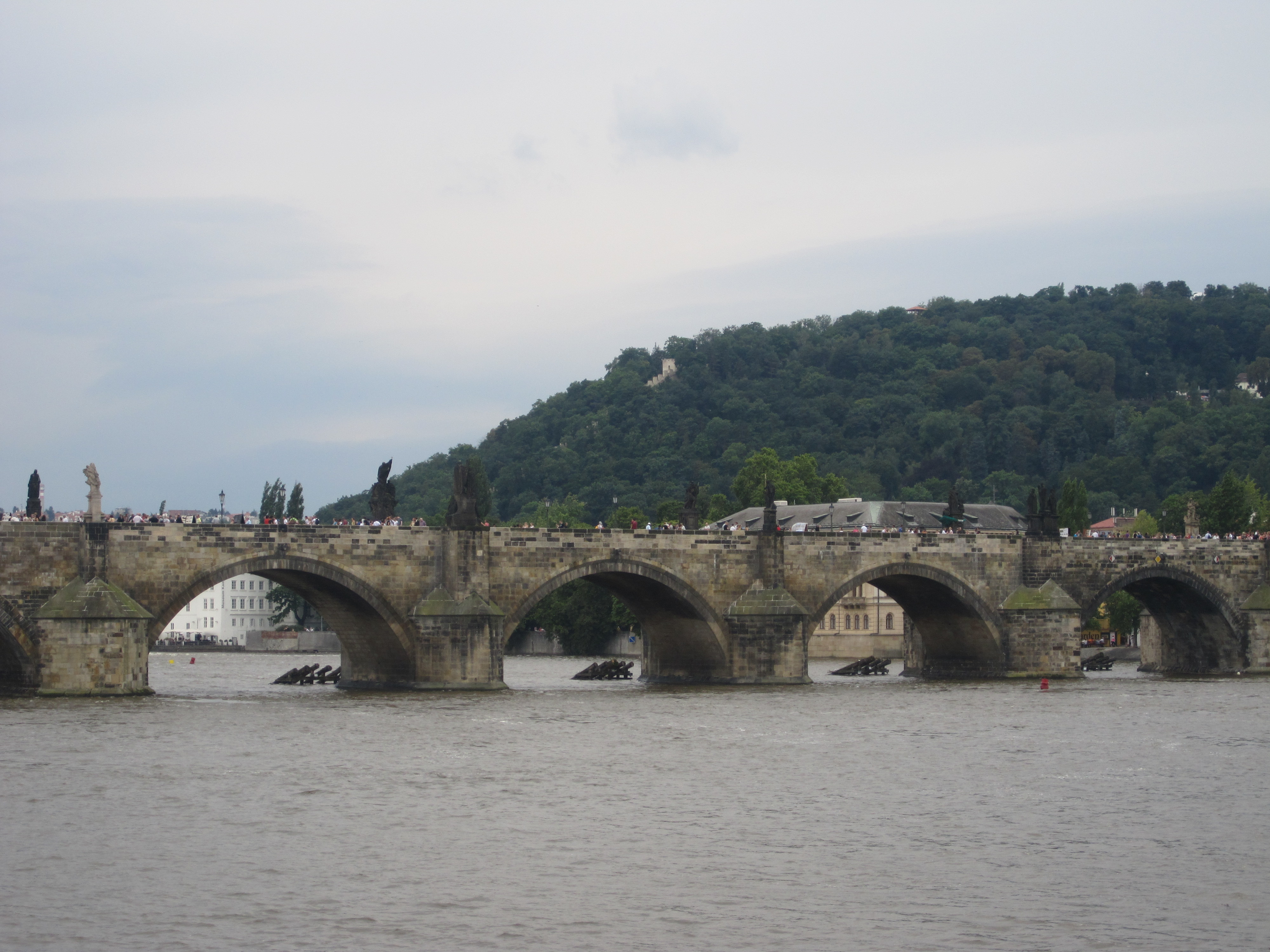 Көпір, Прага Чехия